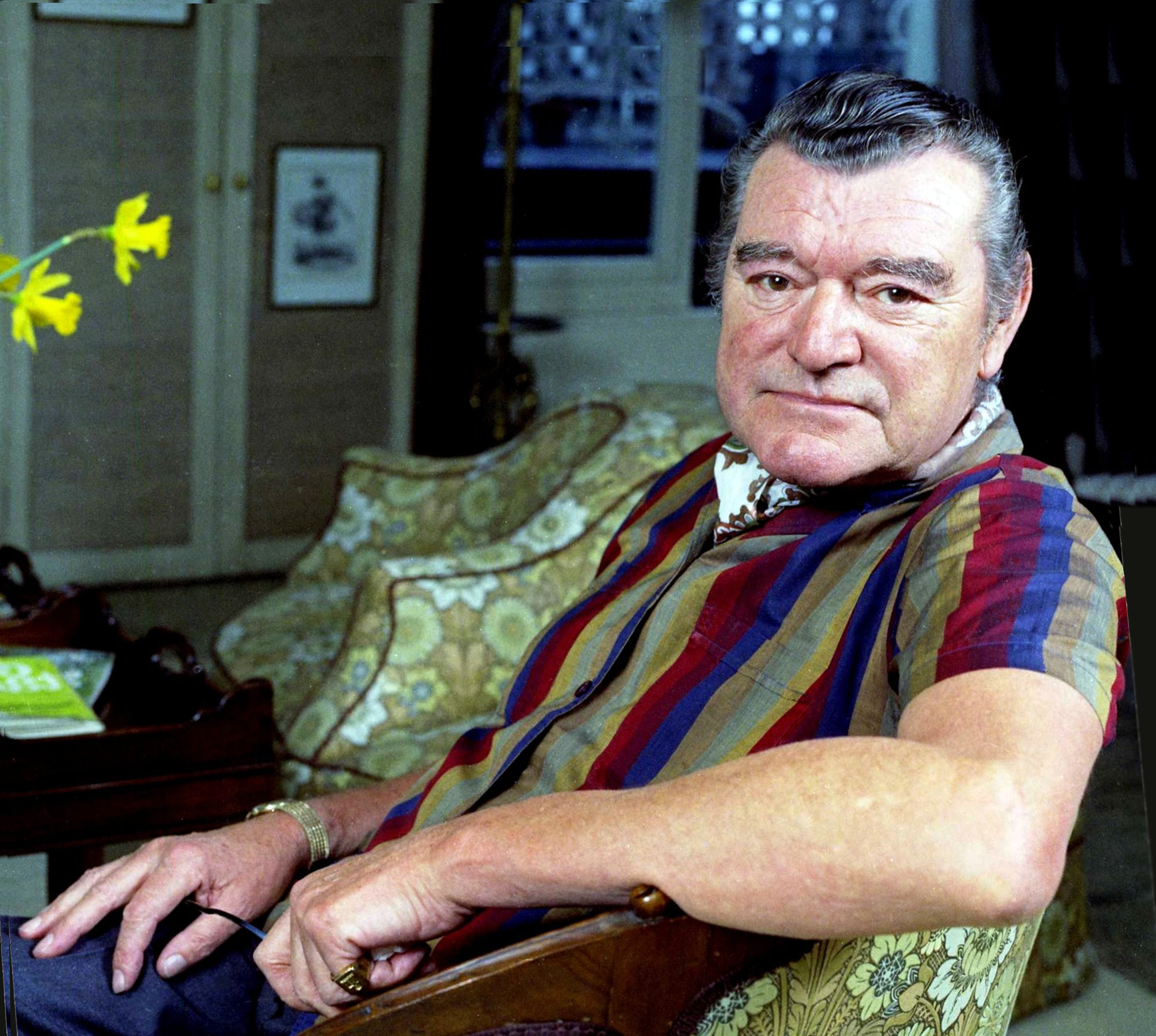 Portrait of Jack Hawkins taken in his apartment in Kensington, London.